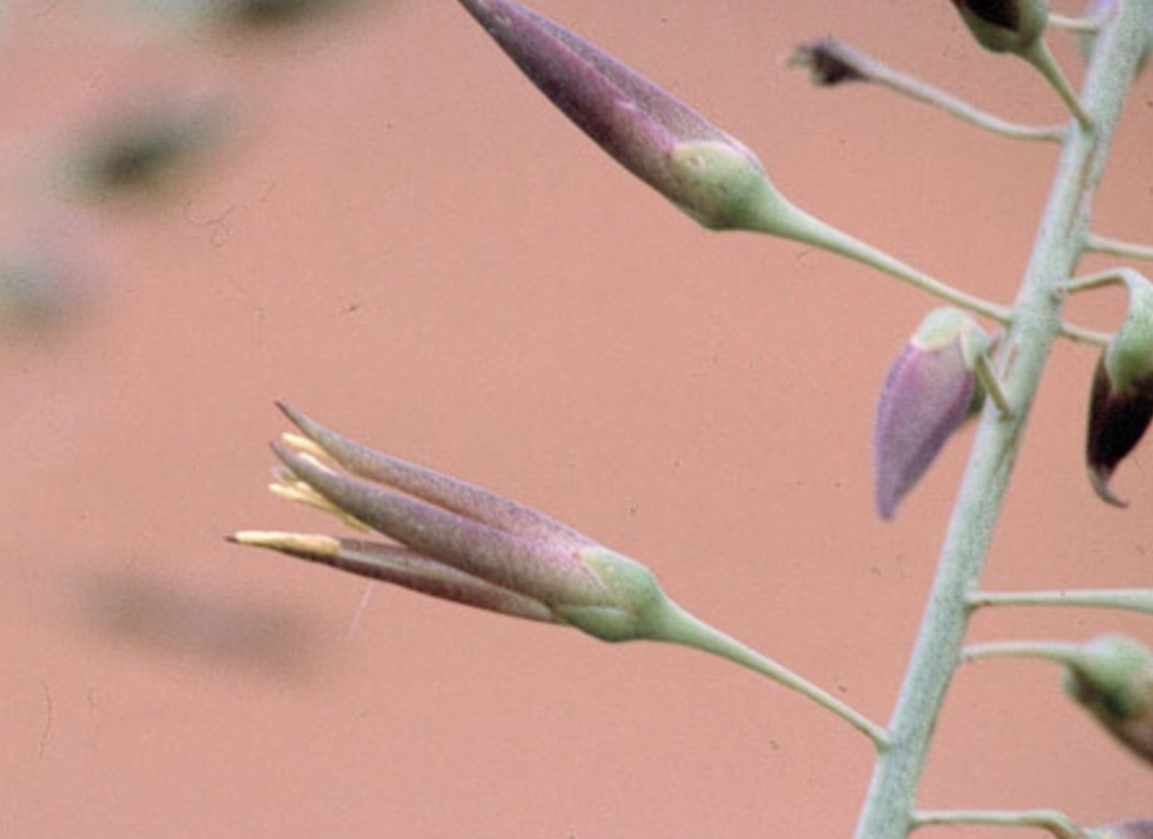 Encholirium pierre-braunii flowering Bahia Brasil